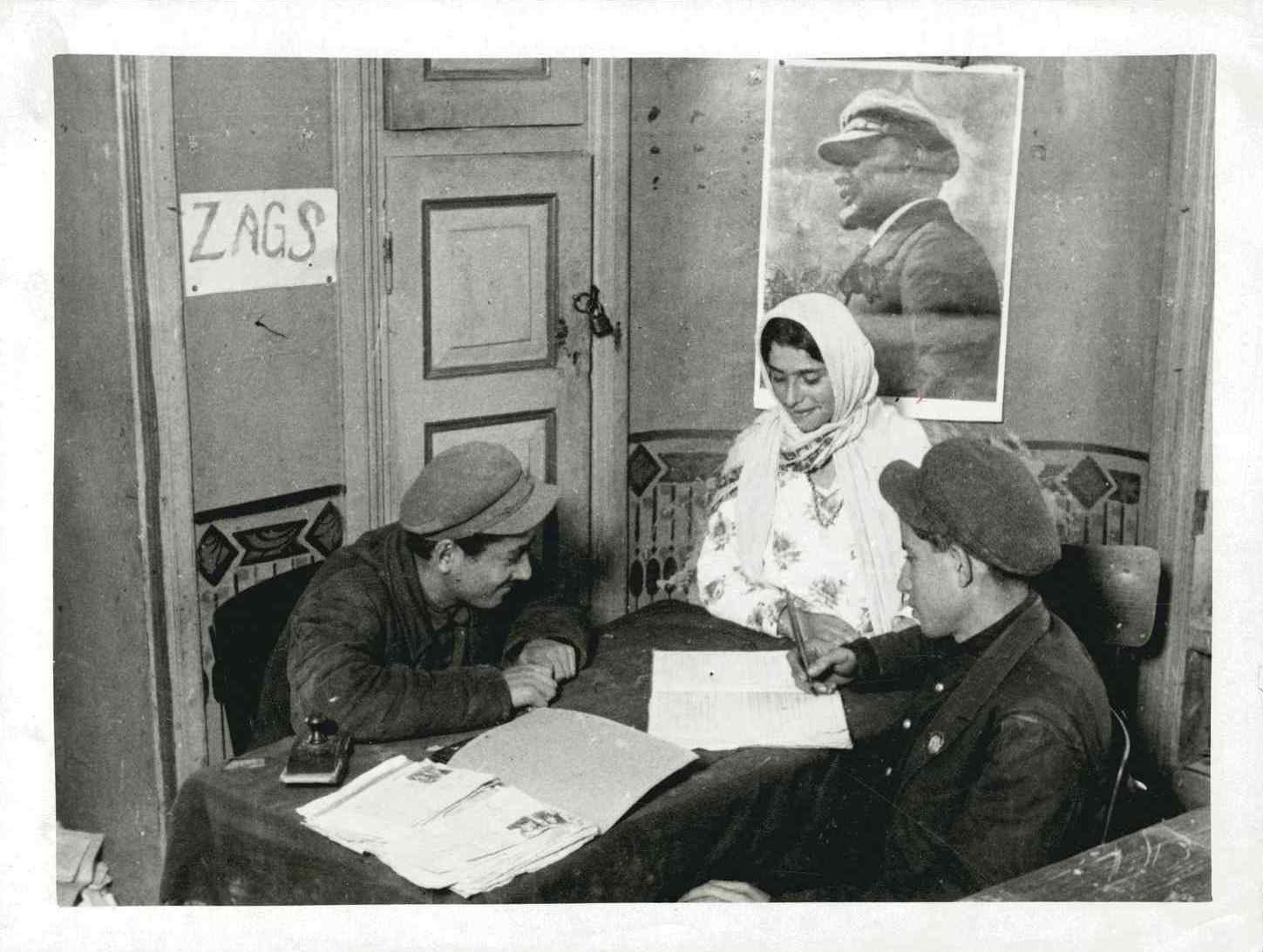 The young communist M. Khatayevitch registering his marriage with the young communist girl Shushanna Khaimova, who is the manager of a shop in Kuba, Azerbaijan